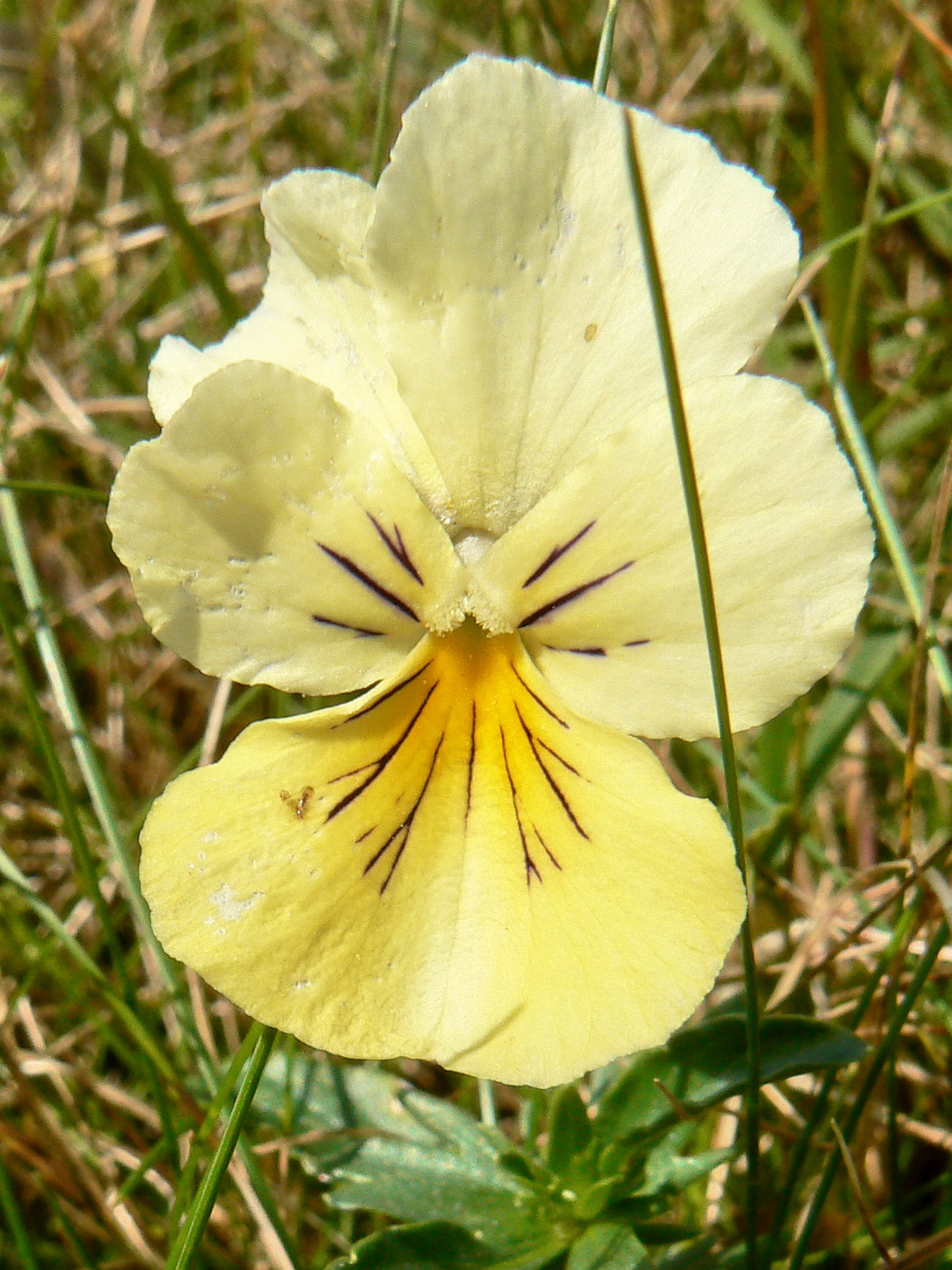 Viola lutea subsp. lutea, Vosges, France